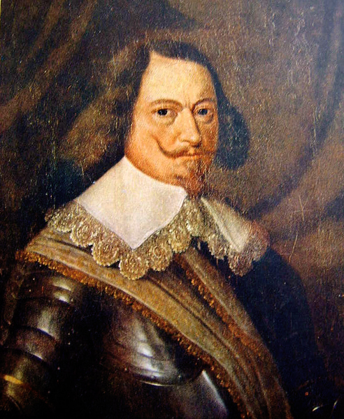 Jacob Kettler, 1642-1682 Duchy of Courland